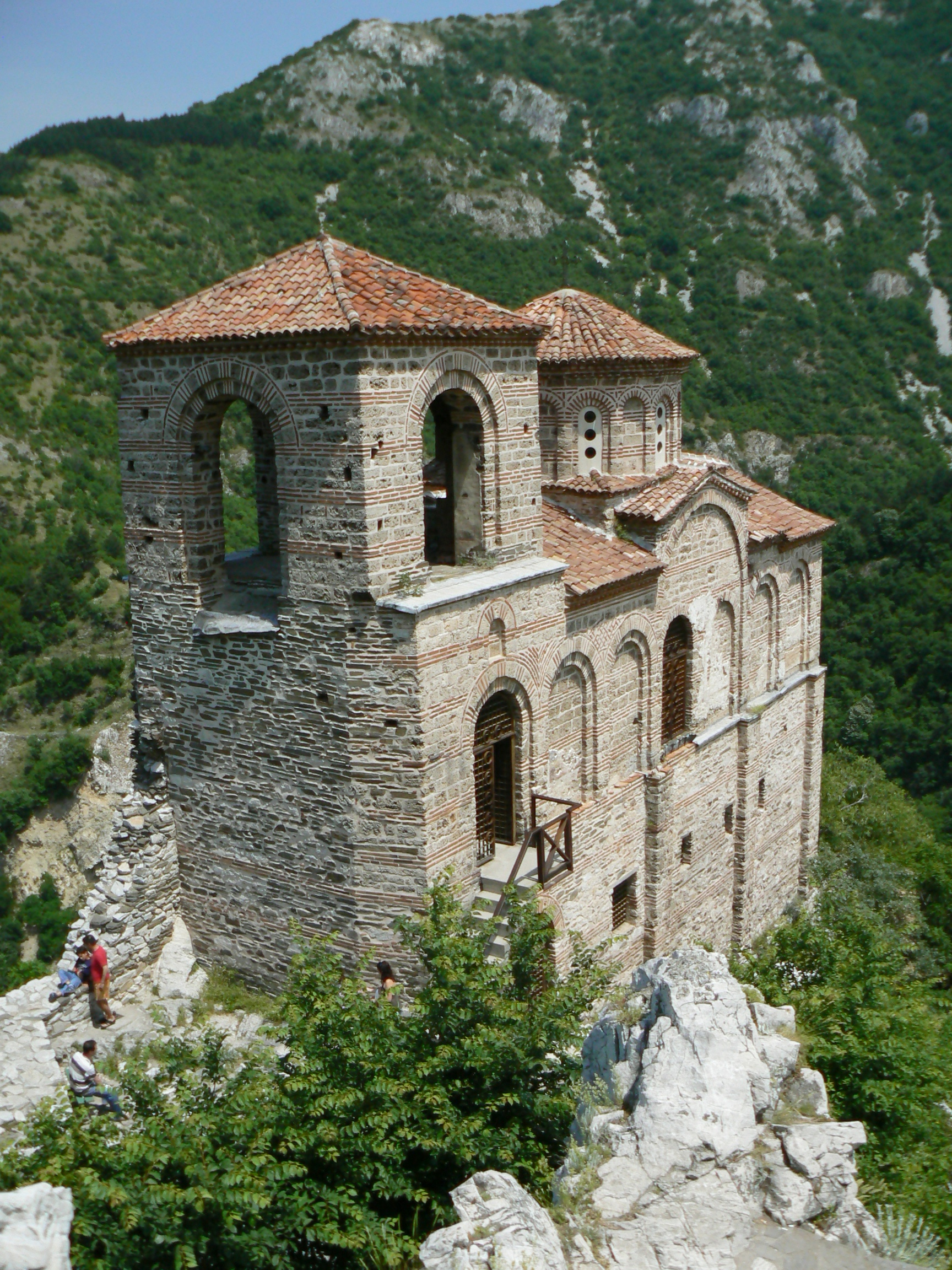 Asenova fortress, Bulgaria